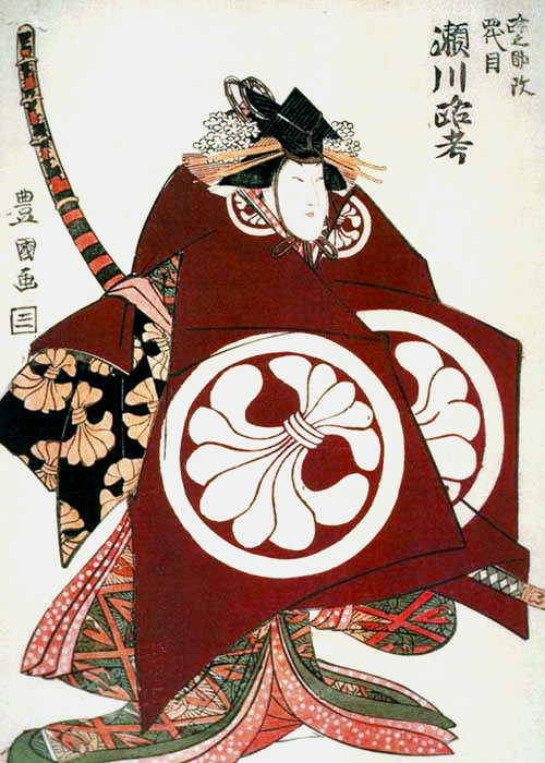 Rokō Segawa IV as Tomoe-gozen in the November 1800 production of Onna Shibaraku, by Toyokuni Utagawa I